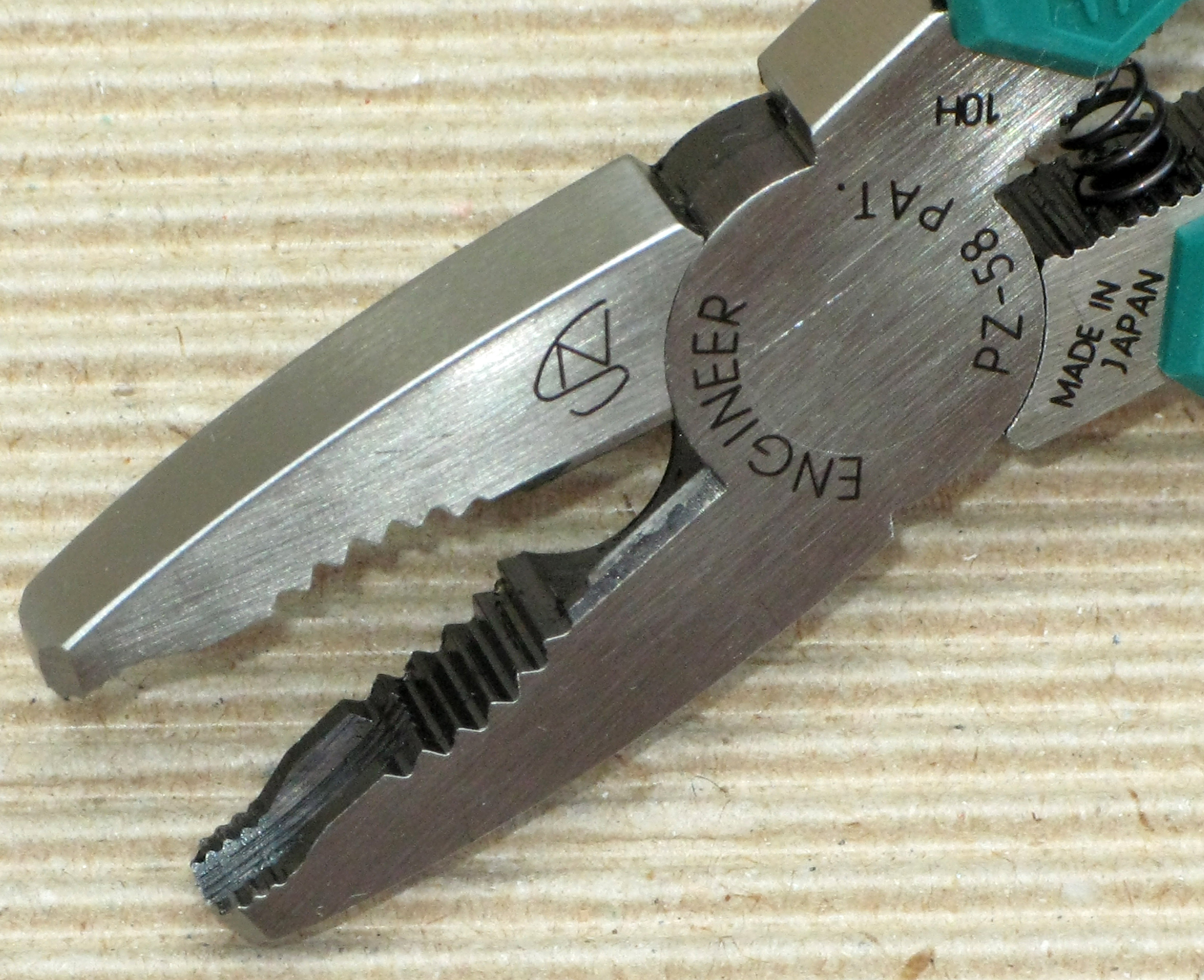 Multi-purpose pliers-head for removing stuck screws